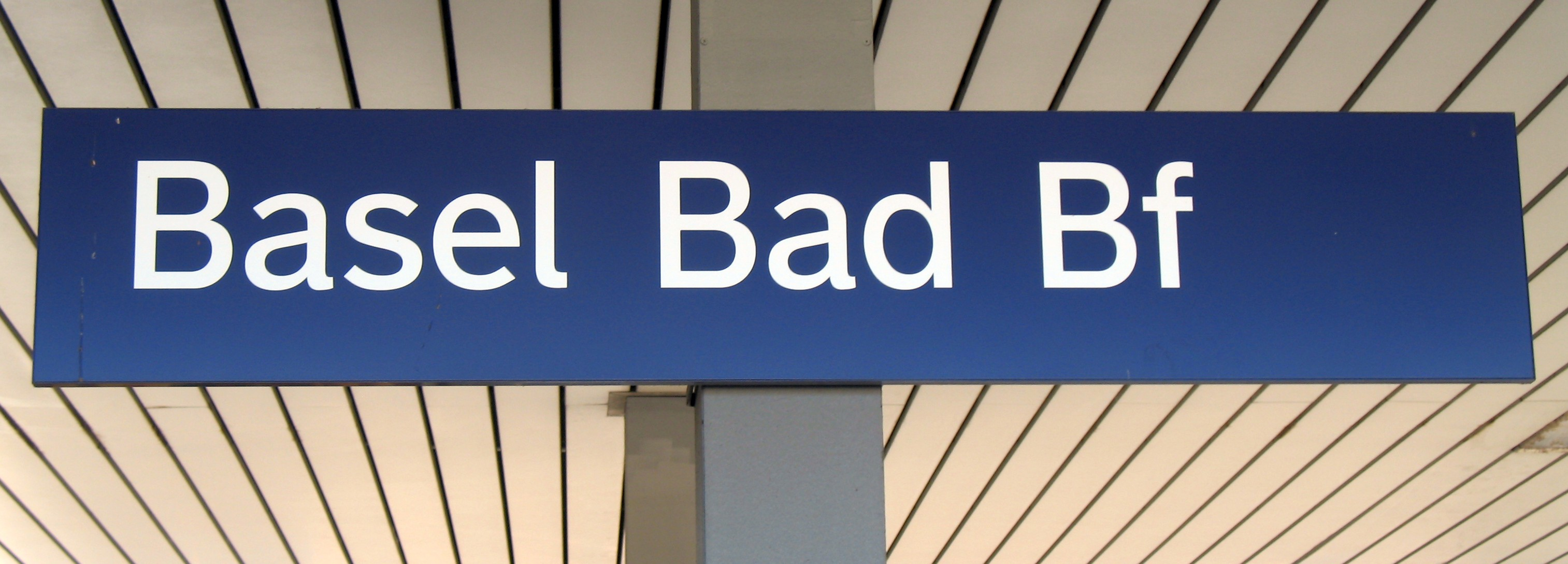 Station sign of Basel Badischer Bahnhof (Basel Bad Bf) in Basel, a DB station in Switzerland